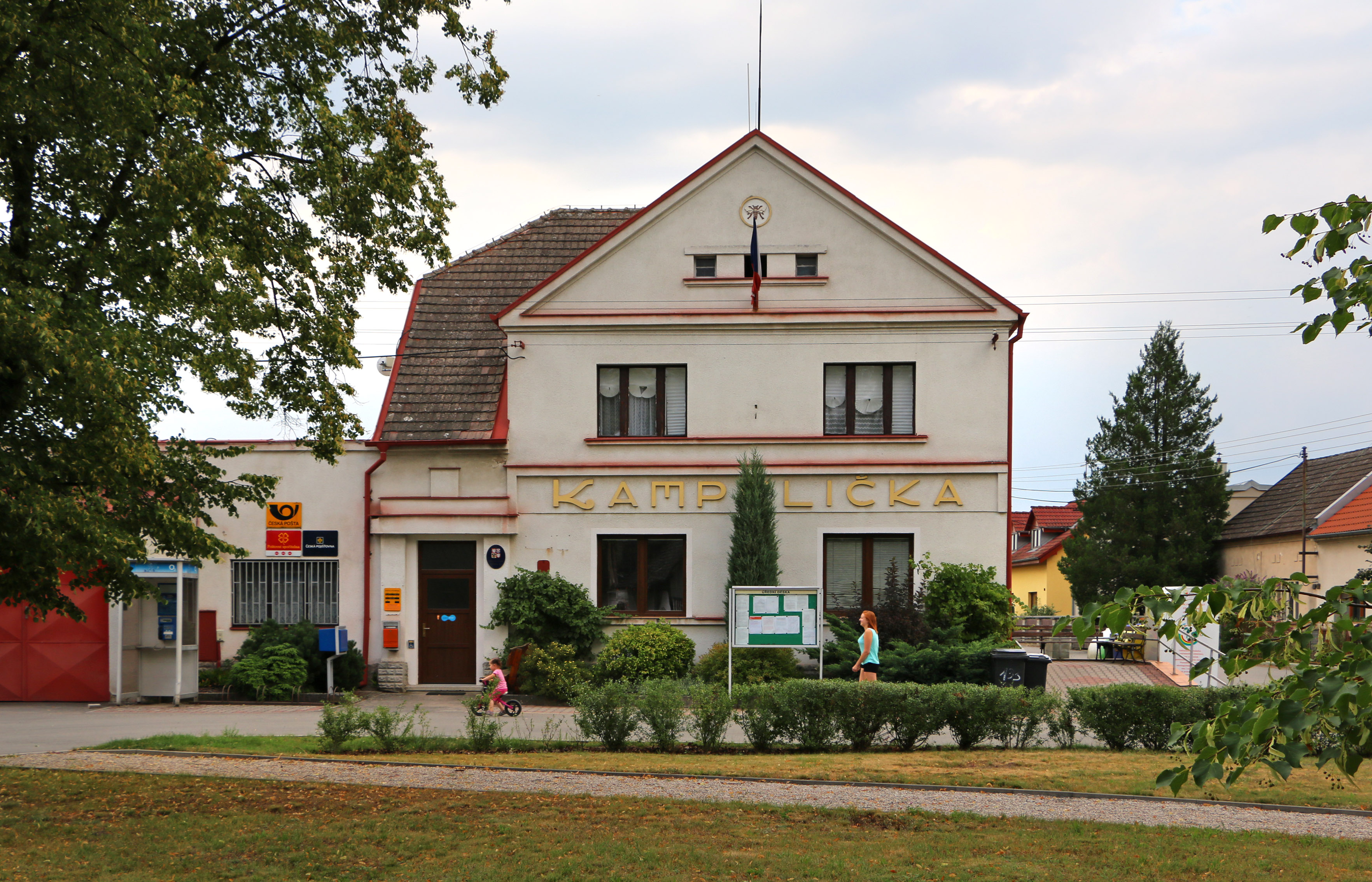 Municipal office and post office in Žďár nad Orlicí, Czech Republic.